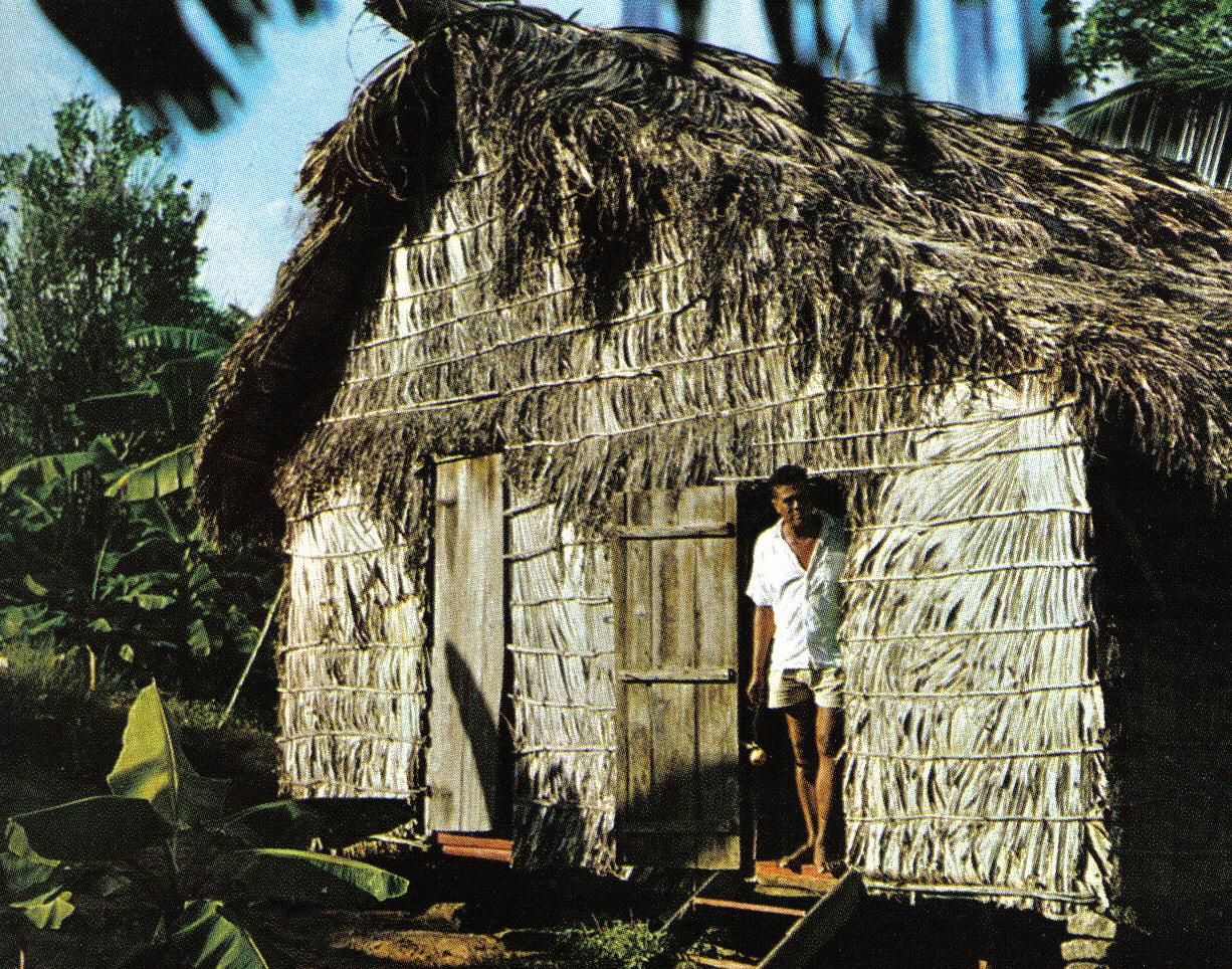 Agricultural worker's house on Praslin, Seychelles